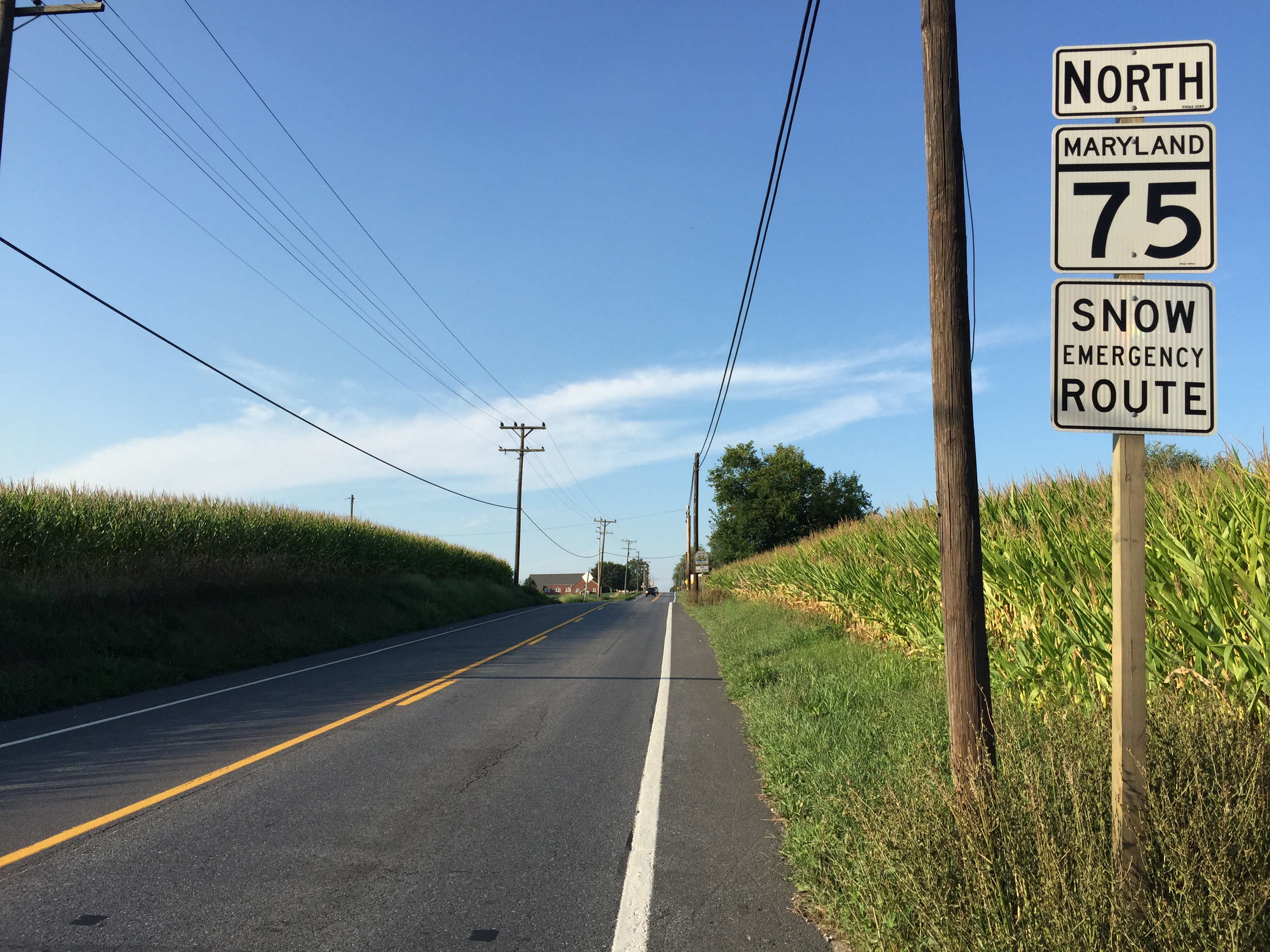 View north along Maryland State Route 75 (Green Valley Road) just north of Sams Creek and just south of Union Bridge in Carroll County, Maryland